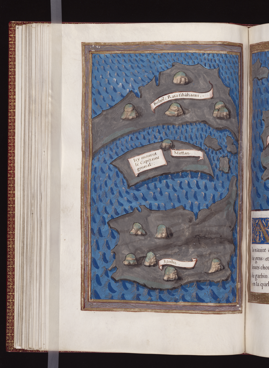 Page shows map of Central Visayas islands